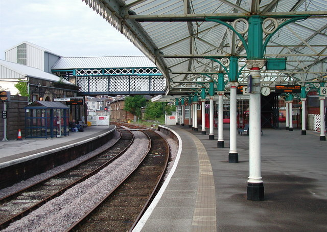 Bridlington Railway Station, Bridlington, East Riding of Yorkshire, England.Bridlington railway station on the Yorkshire Coast Line between Hull and Scarborough, operated by Northern Rail. It is said to be one of only three stations in the UK to have its original station buffet. The railway line from Hull opened in 1846 and continued on to Scarborough in 1847.